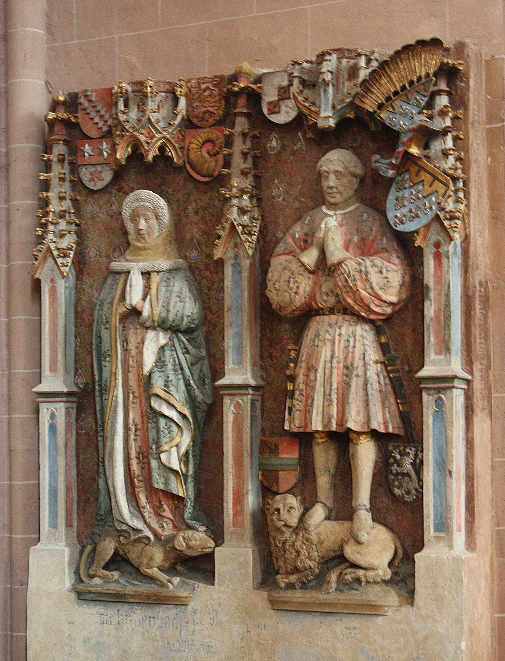 Oppenheim, Saint Catherine´s Church, memorial slab of Johann von Dalberg and Anna von Bickenbach